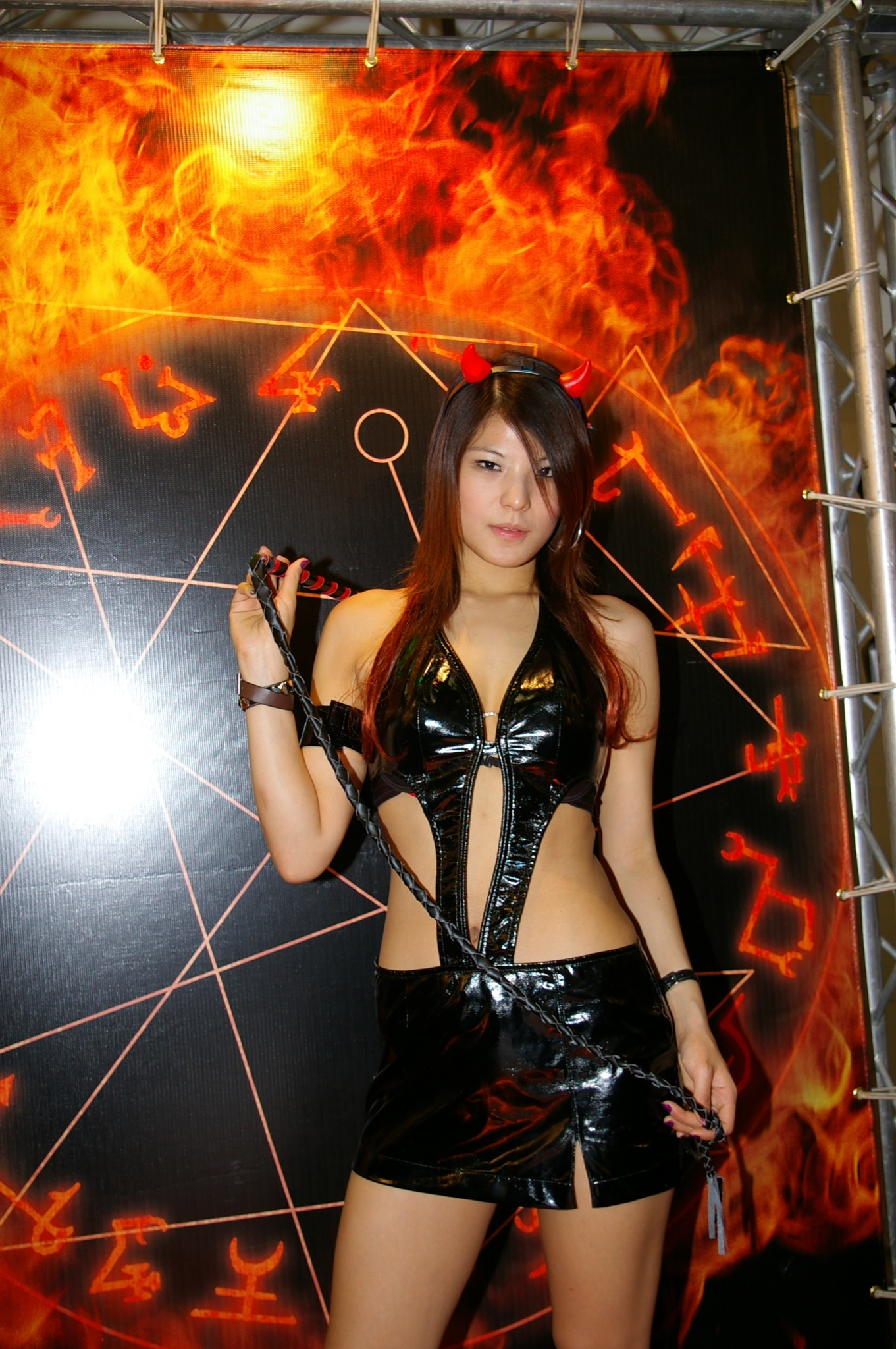 2008 Taipei Game Show: Female promotional model of Hellgate: London at WarTown booth of GigaMedia Limited.